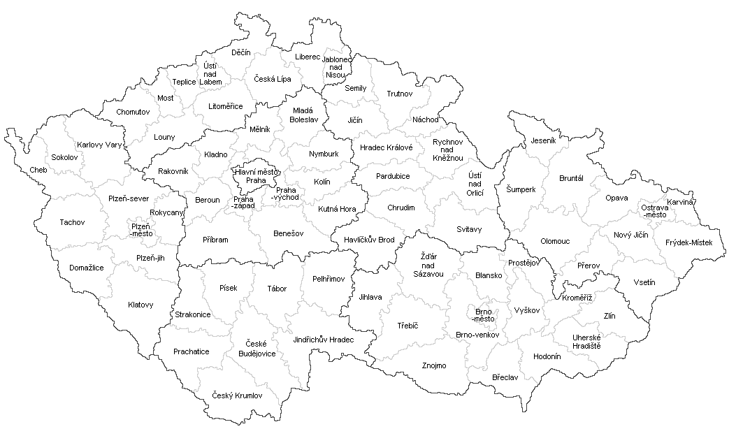 Maps of districts in the Czech Republic in territorial regions (Law No. 36/1960 Coll.) with current borders since January 1, 2007